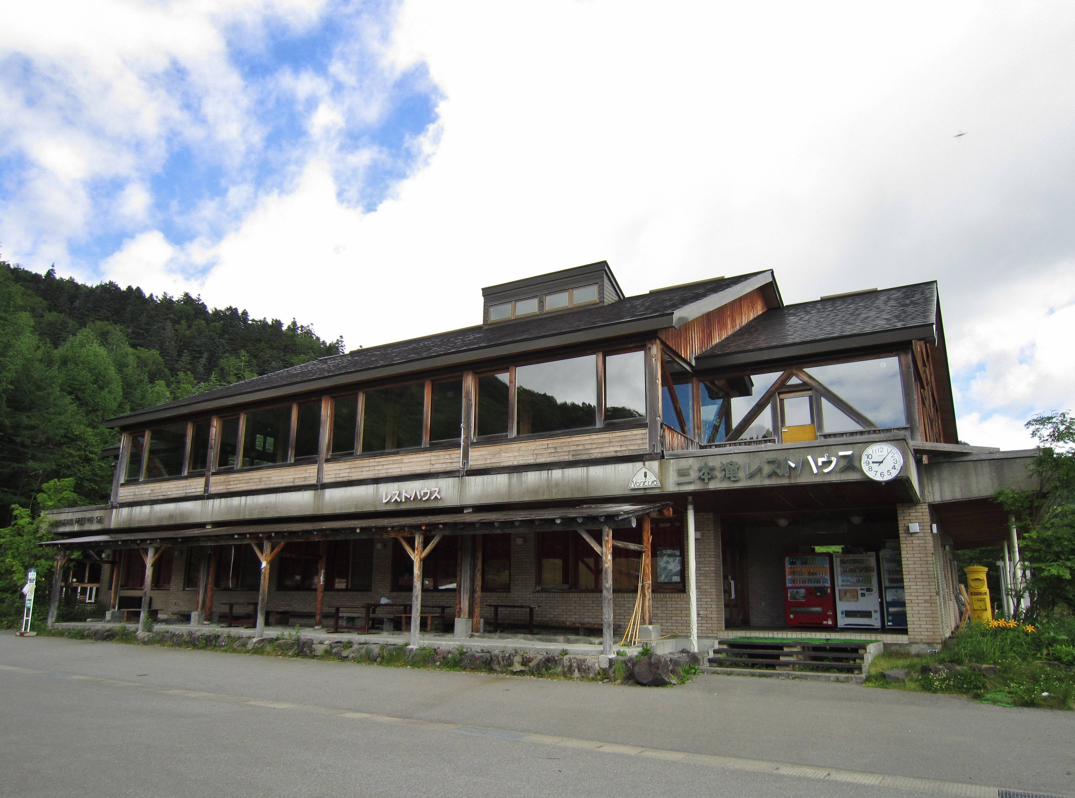 Sanbon Falls rest house.